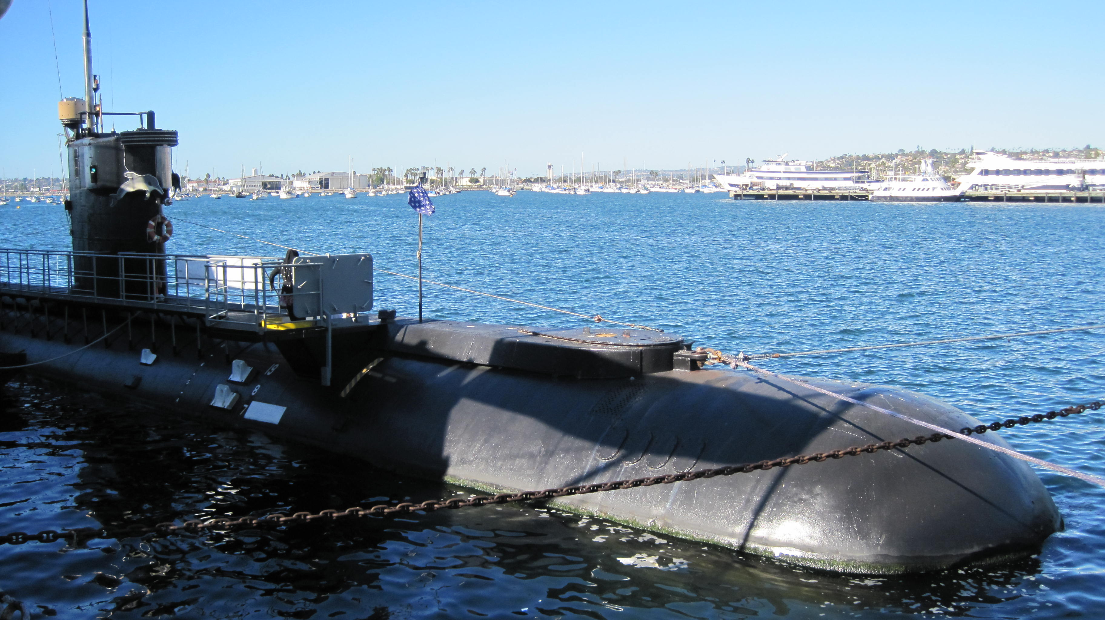 The USS Dolphin (AGSS-555), part of the Maritime Museum of San Diego in San Diego, California.